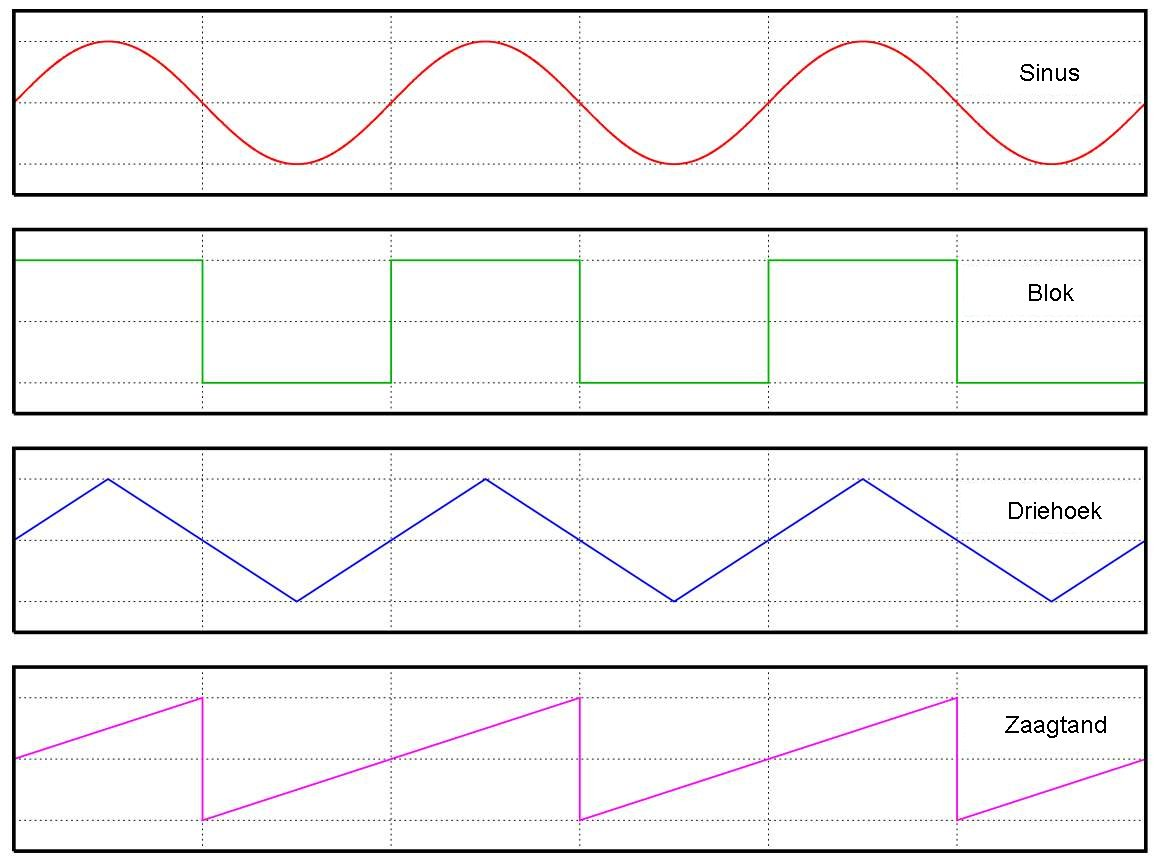 Dutch translation of image:Waveforms.png, which is under GFDL